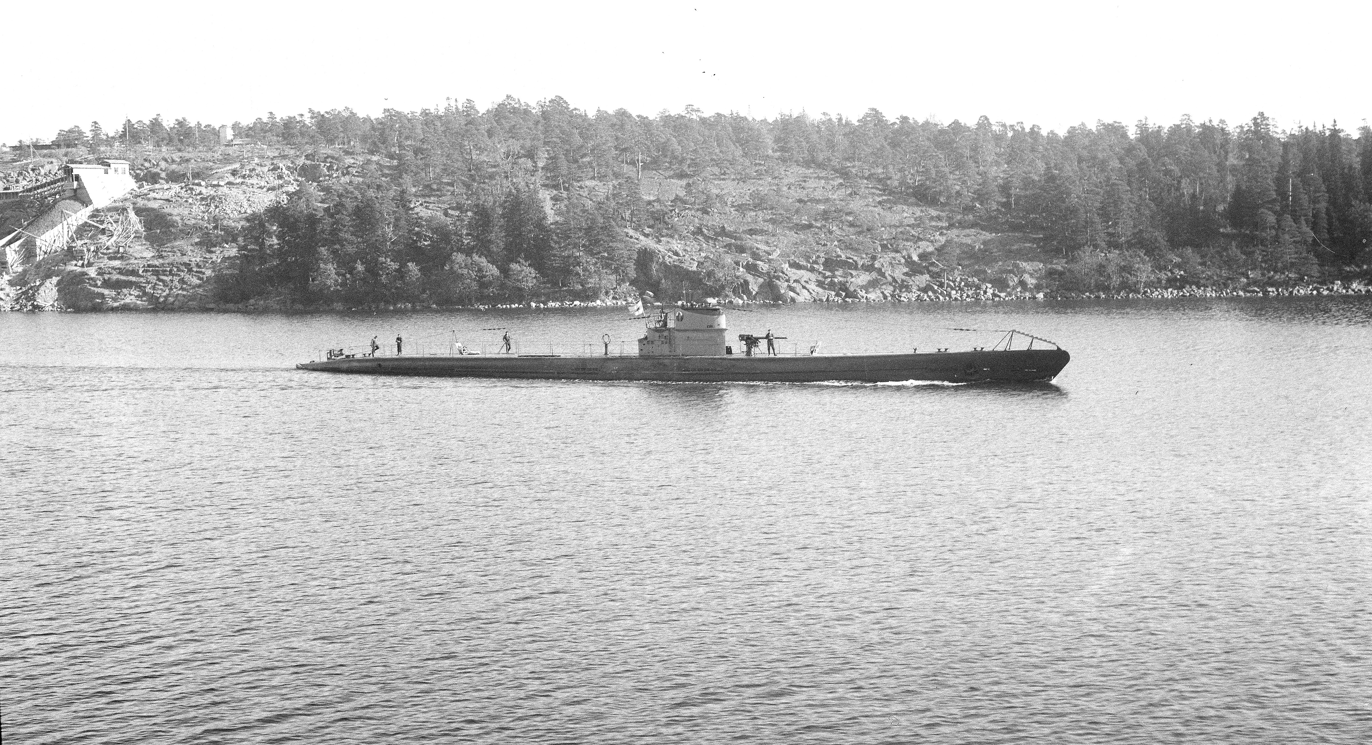 A Finnish submarine in the Åland archipelago. Picture taken between 1939-1945 by Fenrik Arvo Ääri.